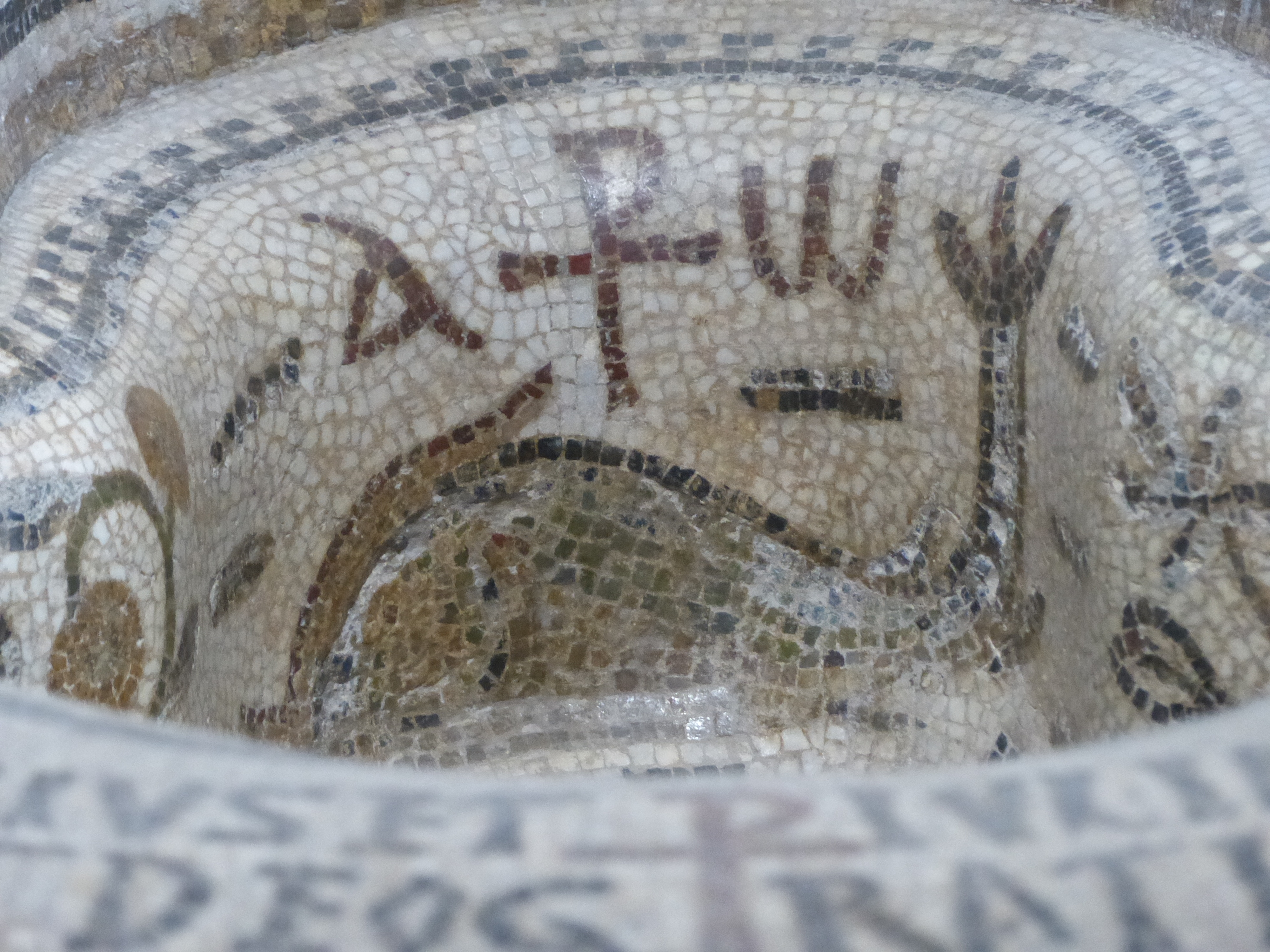 Kelibia baptistry detail